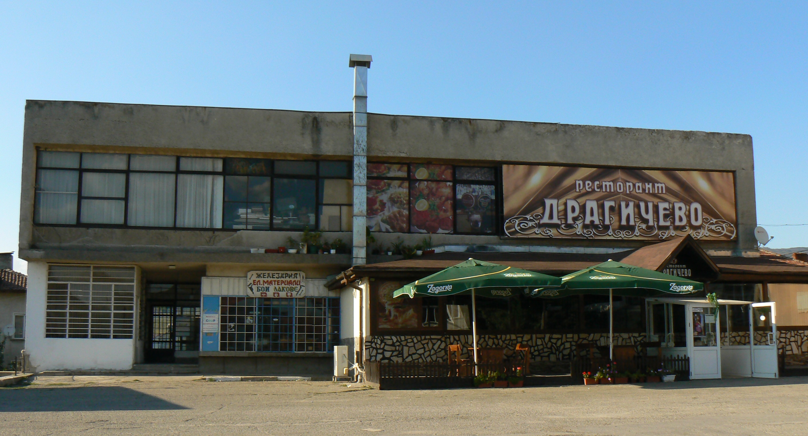 The restaurant in the centre of village Dragichevo, Bulgaria